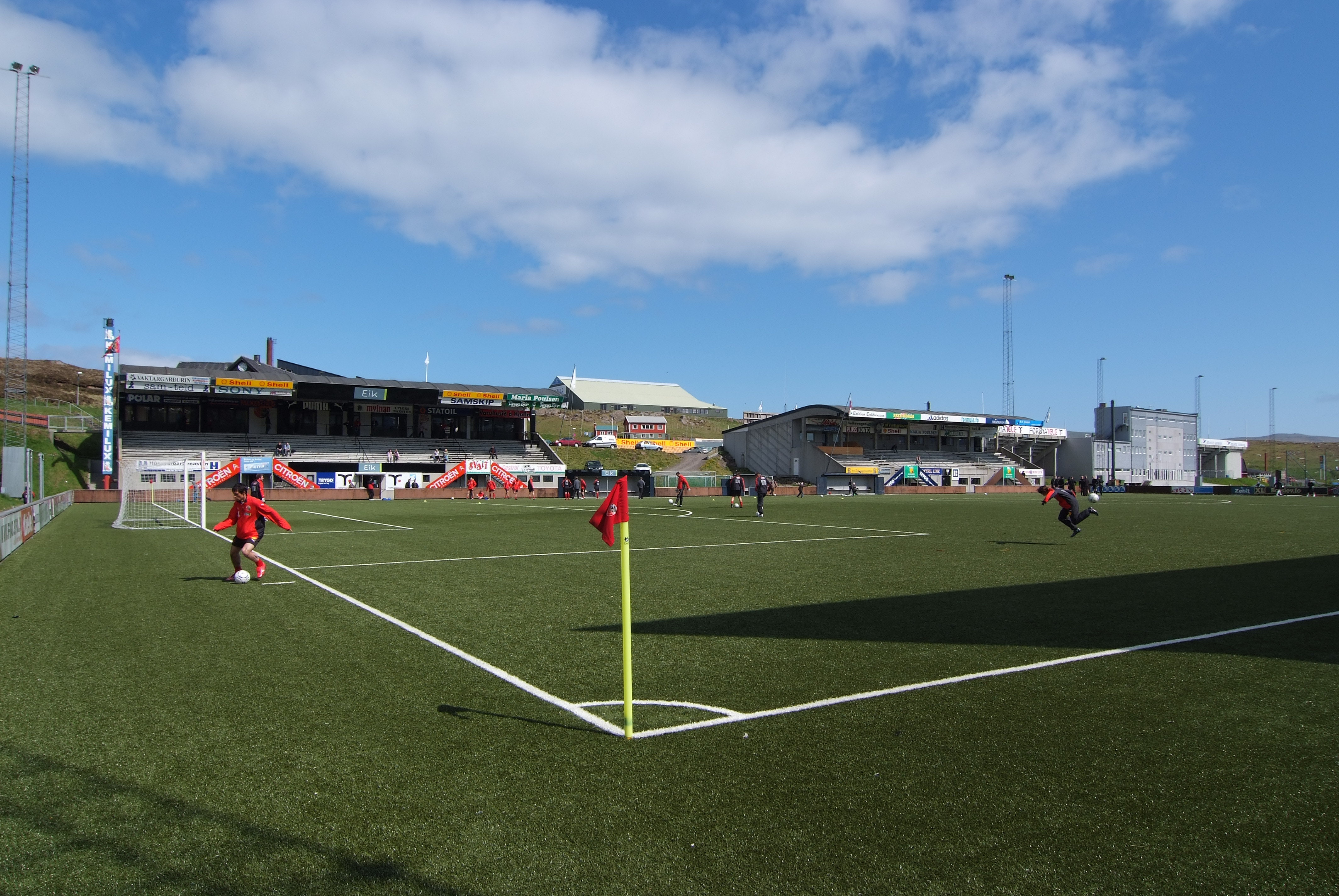 Gundadalur football stadium in Tórshavn, Faroe Islands. The football clubs HB Tórshavn and B36 Tórshavn play their home matches on this football field, which is called Ovarivøllur. There used to be two football fields in Tórshavn which were called Ovarivøllur and Niðarivøllur, but now there is one more, which is just above this one, it is called Tórsvøllur and is the national football venue of the Faroe Islands along with the national football stadium on Svangaskarð in Toftir in the island Eysturoy. It takes only around one hour to drive from Tórshavn to Toftir.